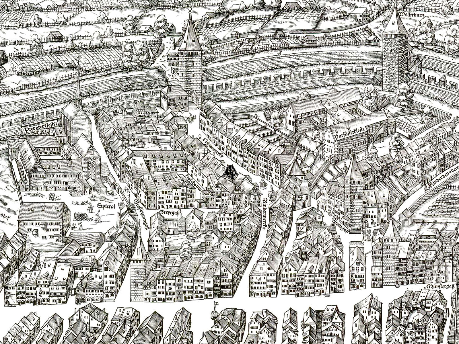 Bilgeriturm (13th century) in Altstadt quarter. View of the city of Zürich on a xylography by Josua Murer, 1576. The original headline can be roughly translated into "The ancient widely known city Zürich's design and positioning, as its essense/character is projected and build at this time by Josen Murer, and printed by Christoffel Froschauer in 1576 in honour of the fatherland."